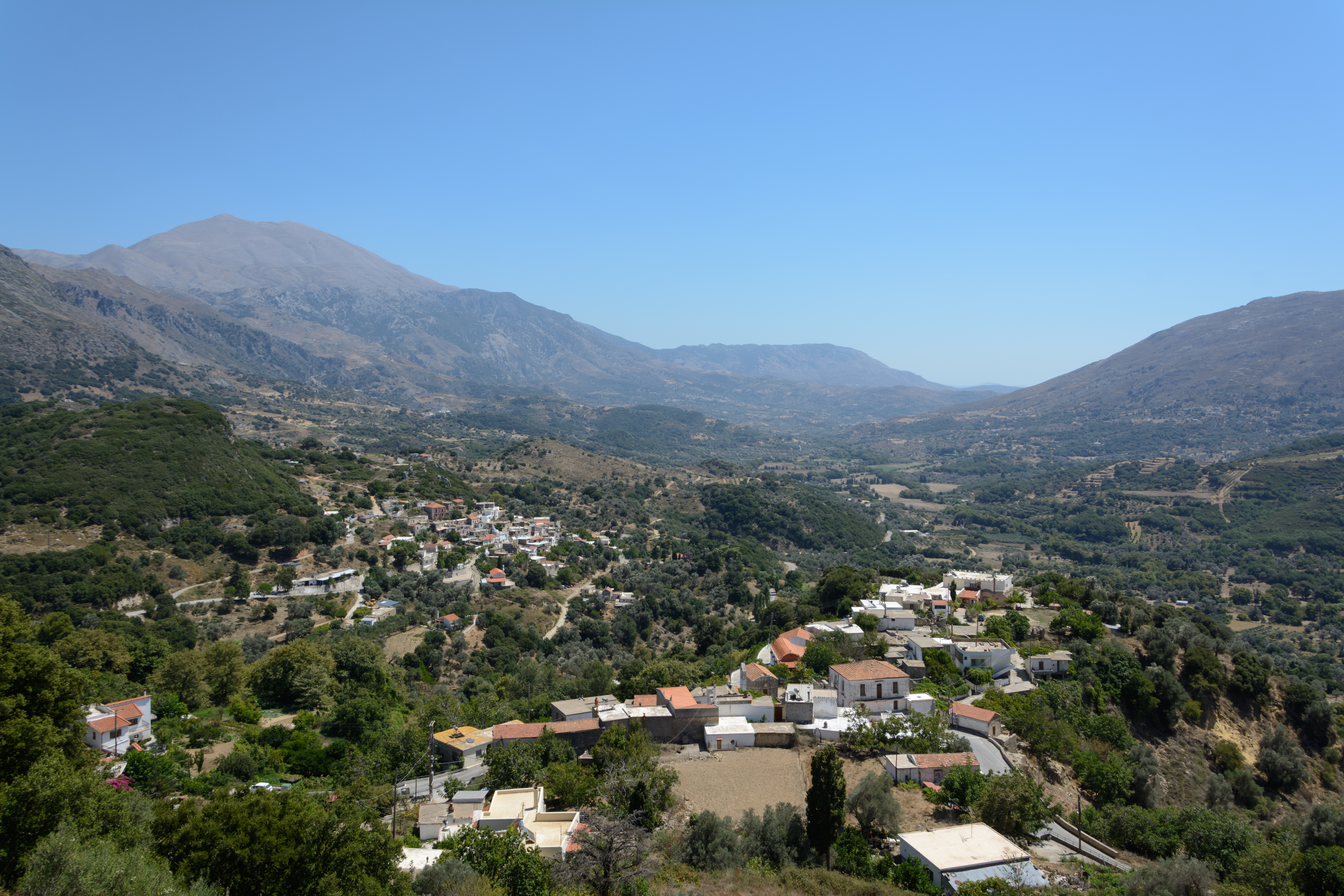 Thronos (Θρόνος) in the Amari Valley and Psilorits (Ψηλορείτης, 2456 m), highest mountain in Crete